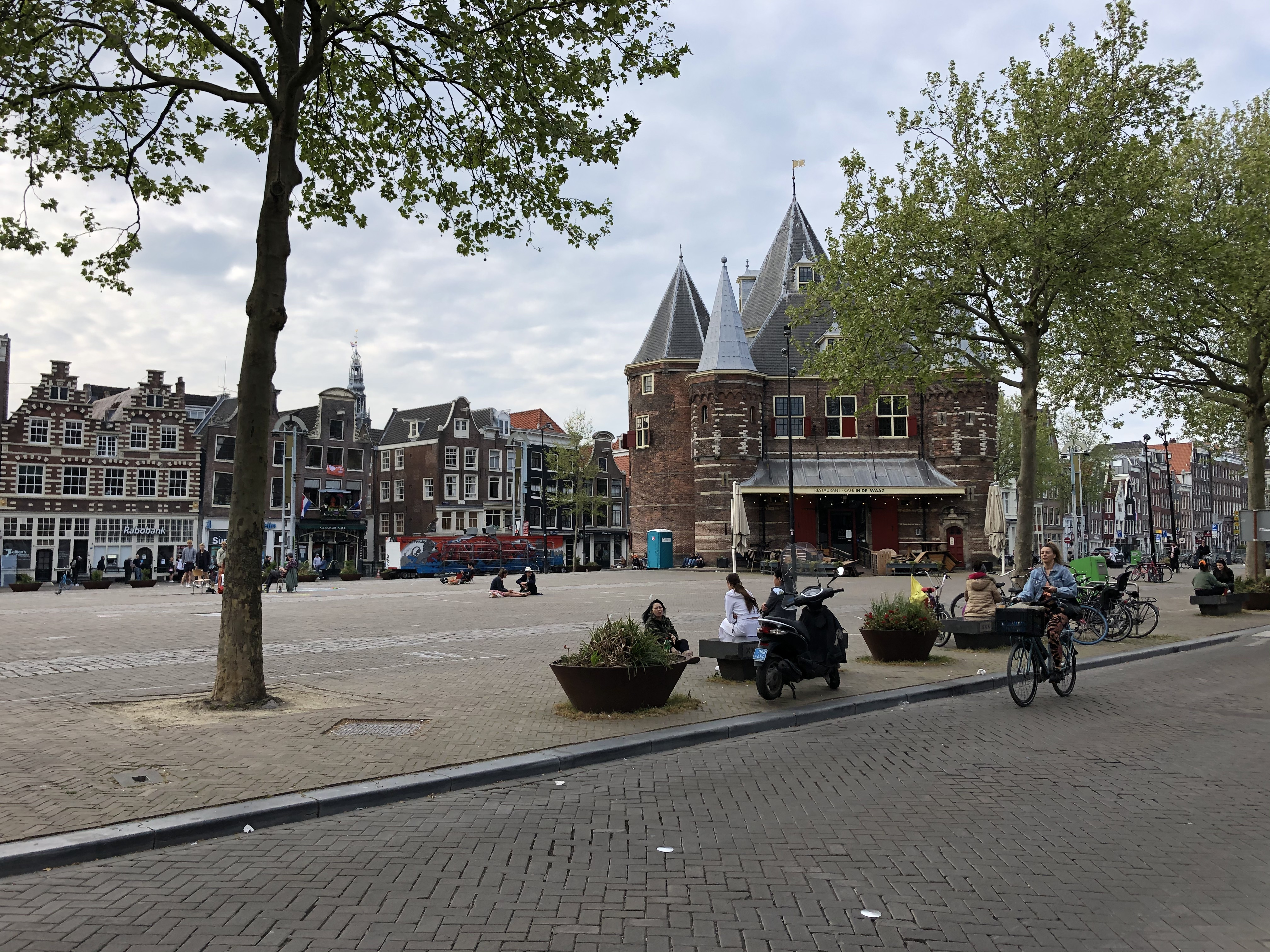 A deserted Nieuwmarkt in Amsterdam, the Netherlands during King's day 2020 because of the Corona pandemic